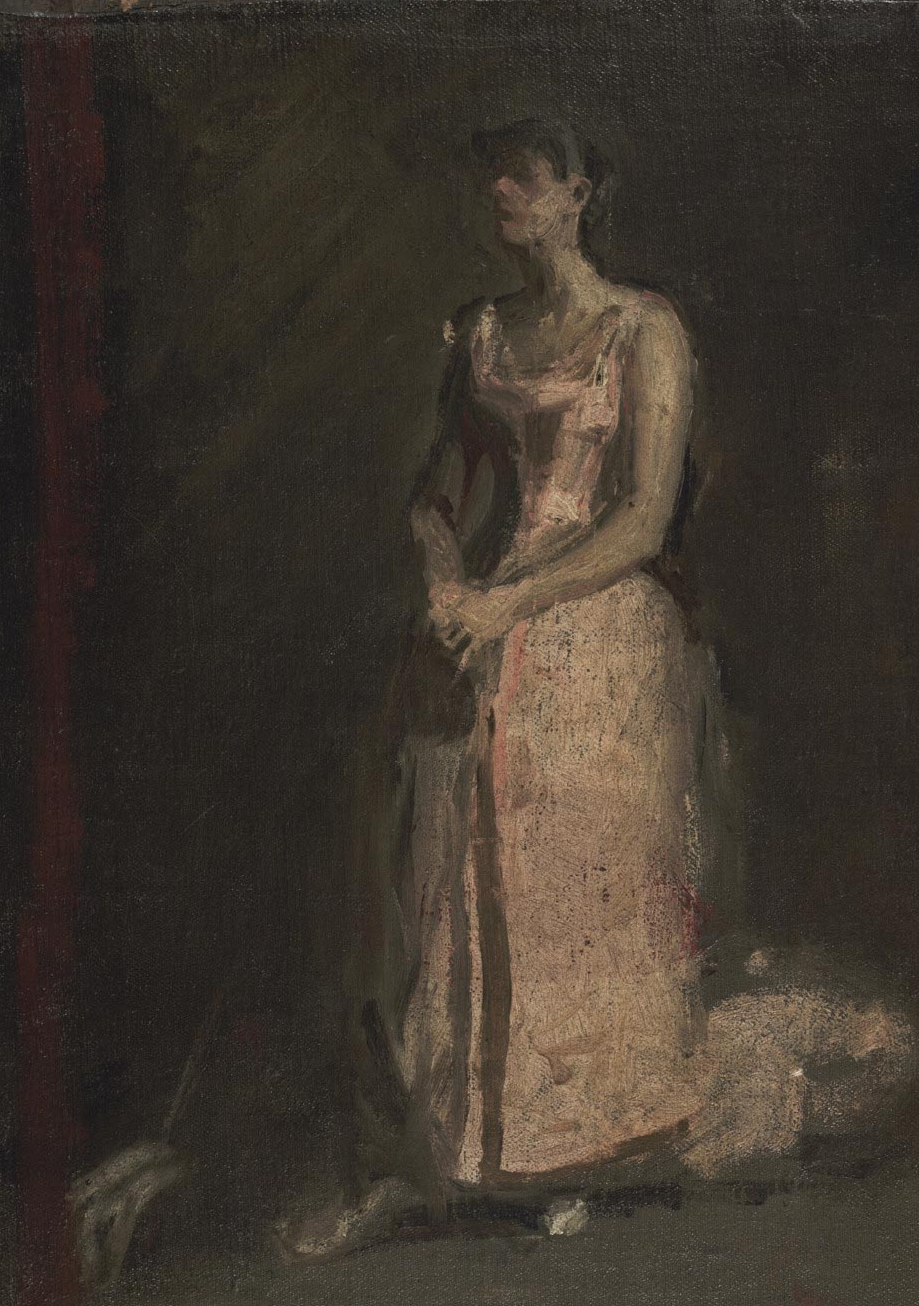 Sketch for 'The Concert Singer' by Thomas Eakins